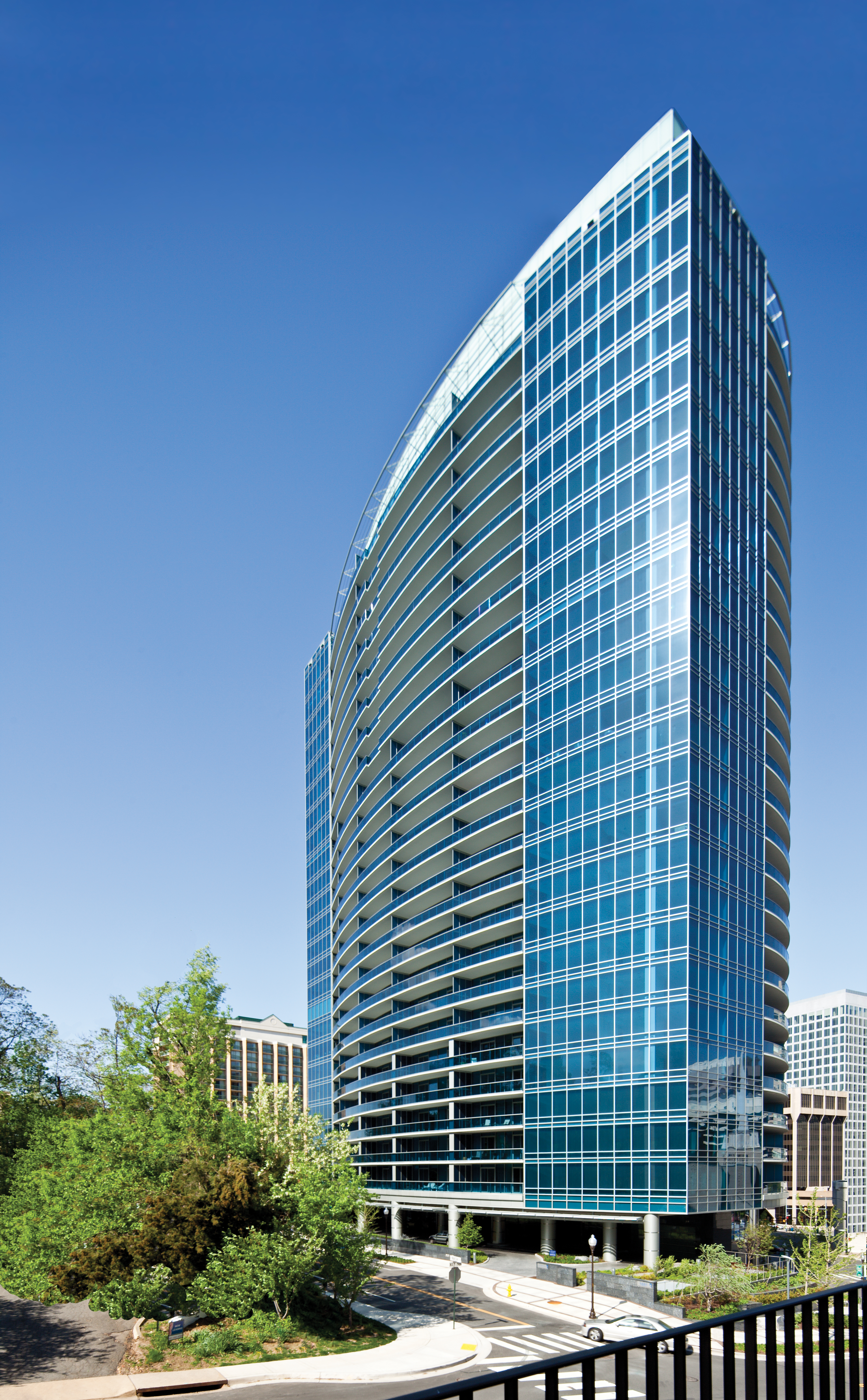 Turnberry Tower condominiums of Arlington, Virginia.